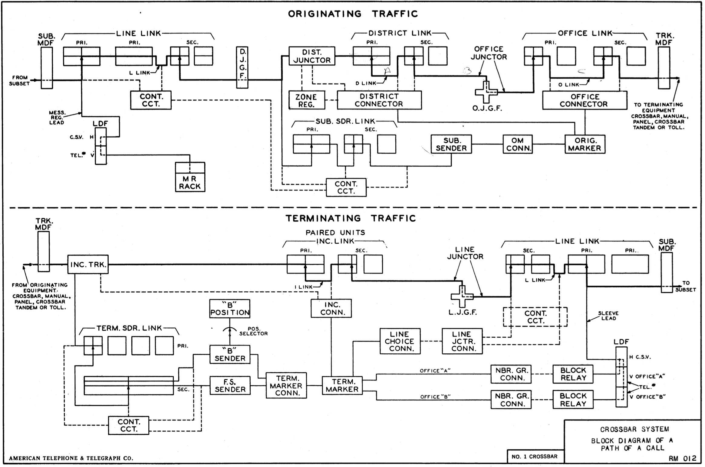 An overall view of the originating and terminating architecture of a No. 1 Crossbar switching system, from a school book published in 1954.